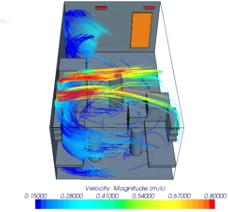 Simulation of wind in room for a bachelor thesis in engineering, verified by manual measurements.